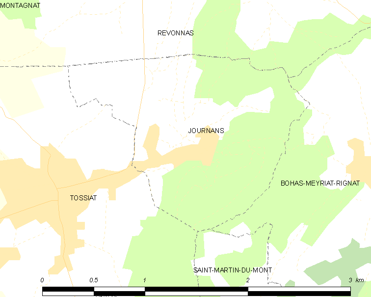 Map of French commune: Journans Map commune FR insee code 01197.png